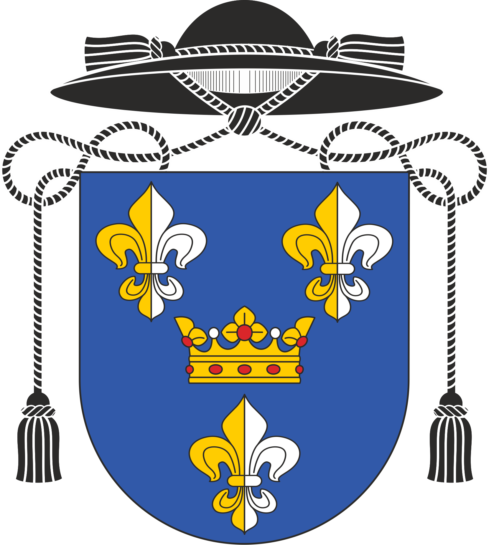 Coat of arms of Parish of Dolné Orešany in Slovakia